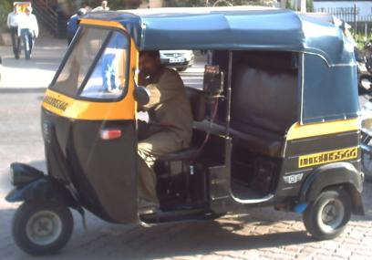 Rickshaw